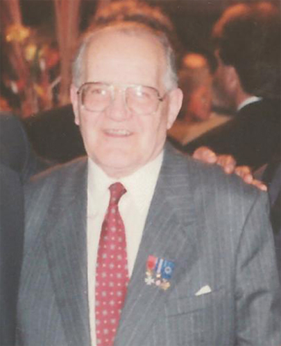 Nikola Pašić at a Serbian Canadian event in 1992.